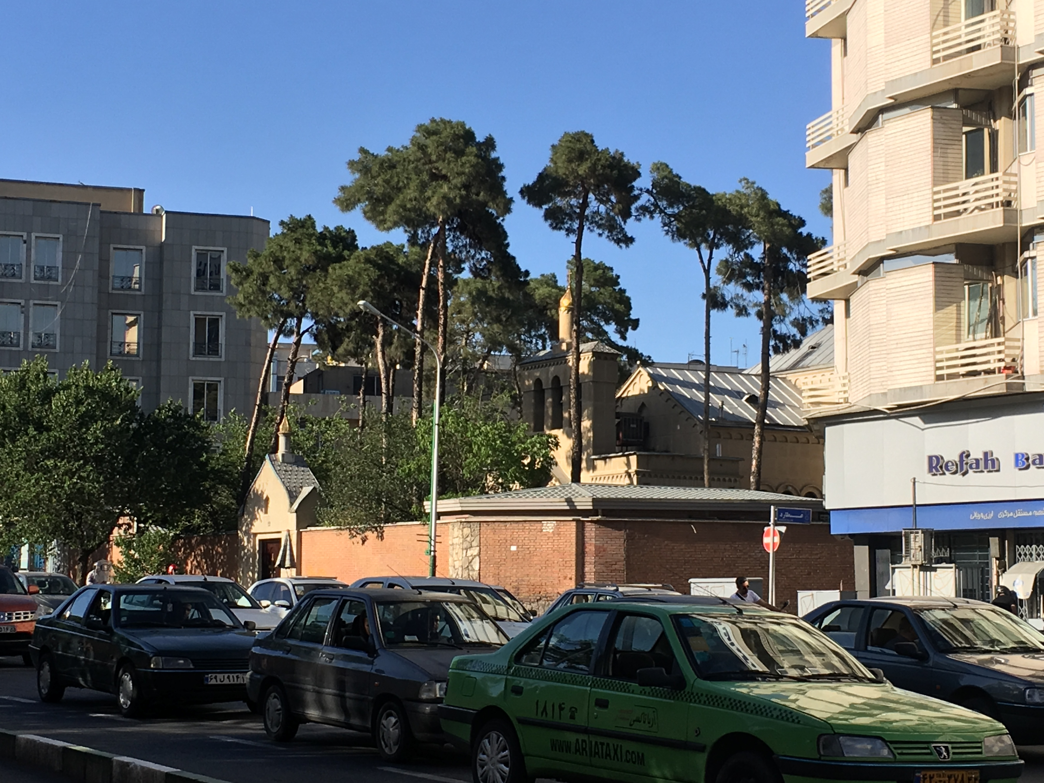 St. Nicholas Orthodox Church is a Russian Orthodox church in Teheran, Iran.